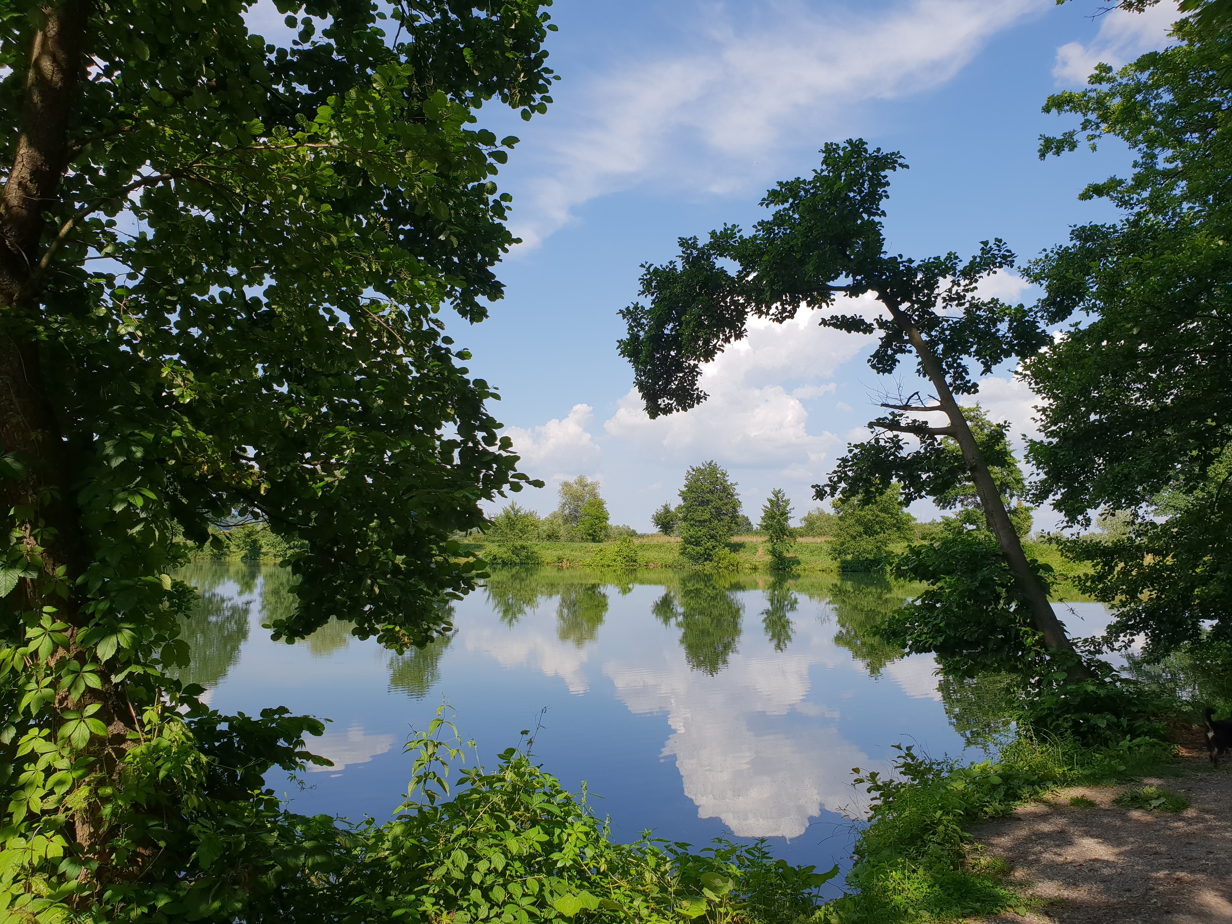 Bedekovcina lake